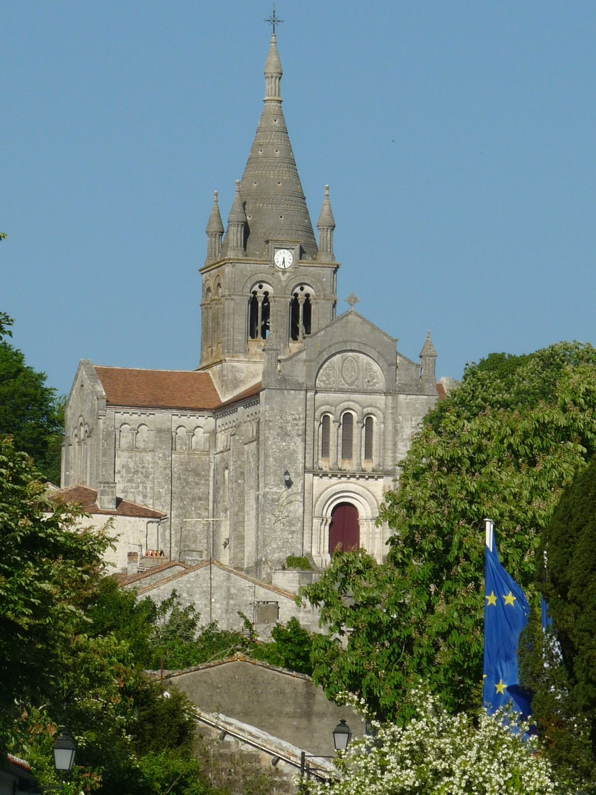 church of Villebois-Lavalette, Charente, SW France